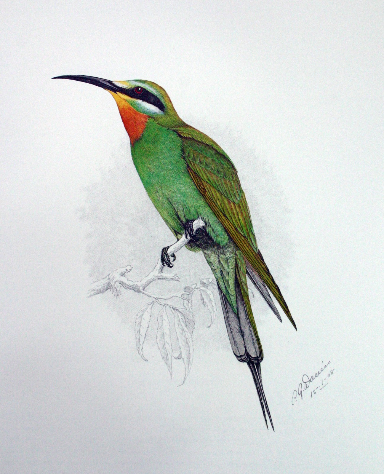 Merops persicus, Blue-cheeked Bee-eater (adult female)